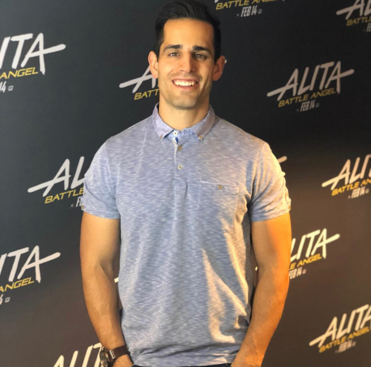 Chris Van Vliet at the Miami premiere of Alita: Battle Angel in February 2019.